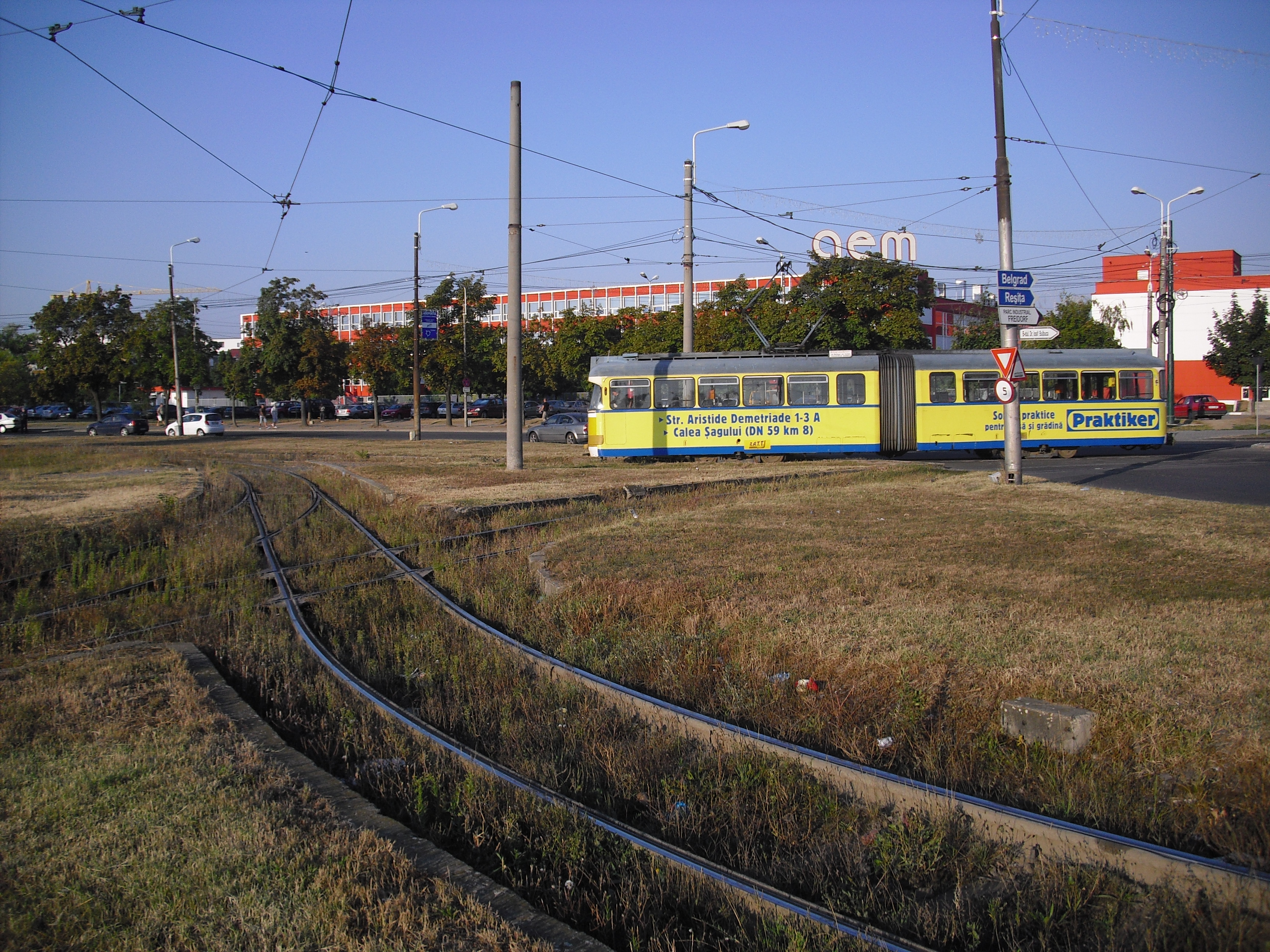 GT4 type tram in Timisoara.